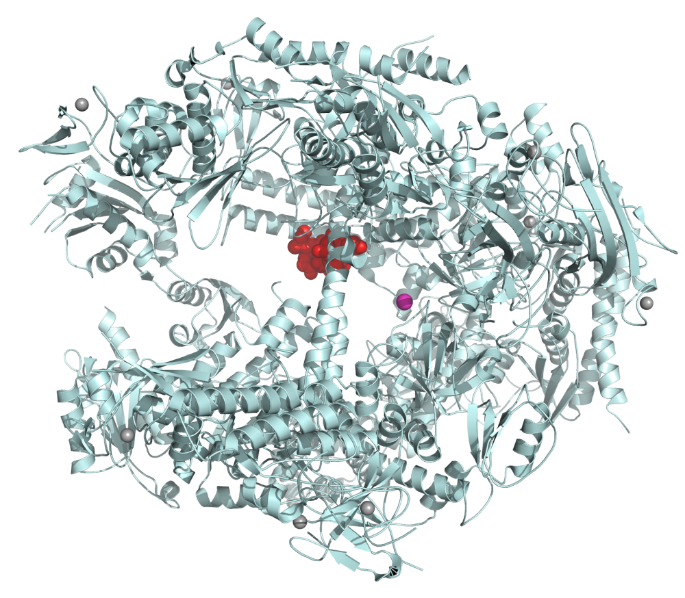 Ribbon diagram of Saccharomyces cerevisiae RNA polymerase II in complex with α-amanitin (red). Active site magnesium ion visible in pink near center.Created using PyMOL ( and GIMP. Style and orientation made to match Legend RNA polymerase II Active site magnesium ion α-amanitin Zinc ions